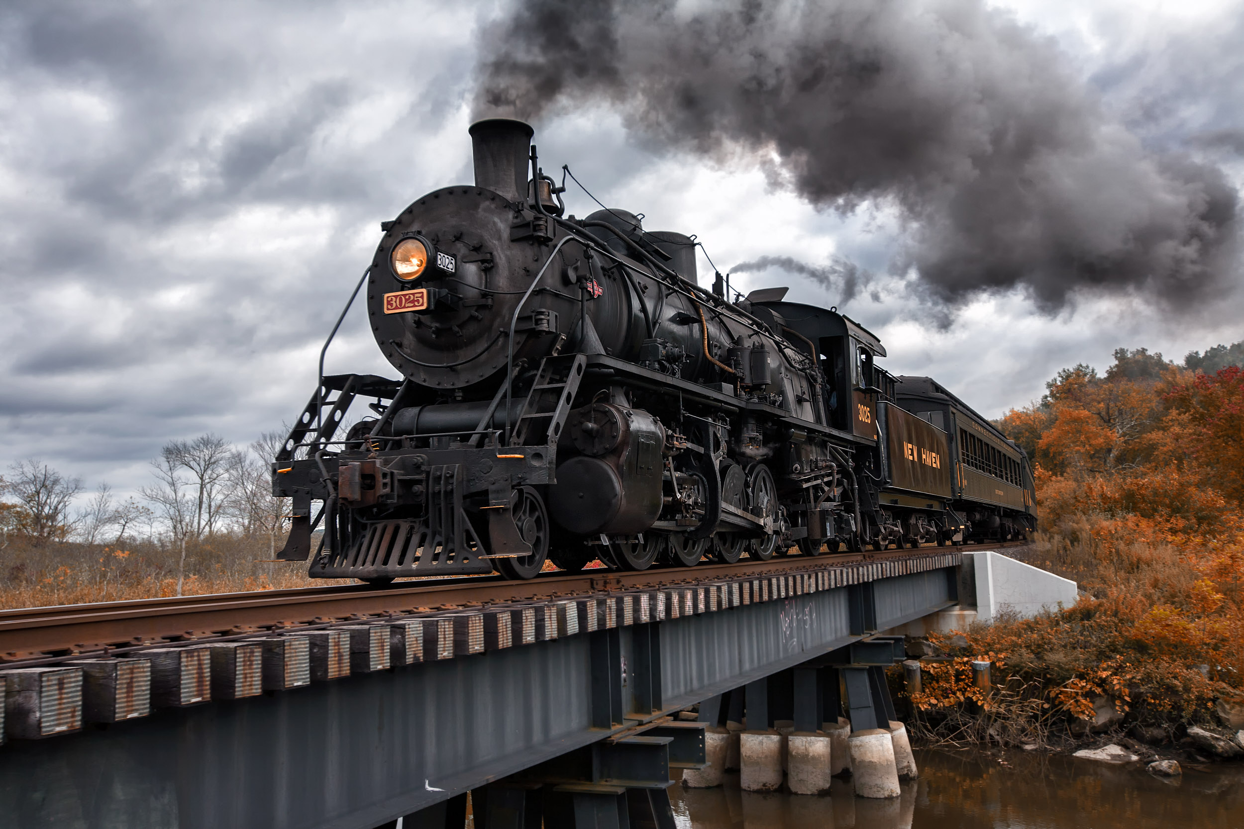 Valley Railroad 3025 under steam in November 2015